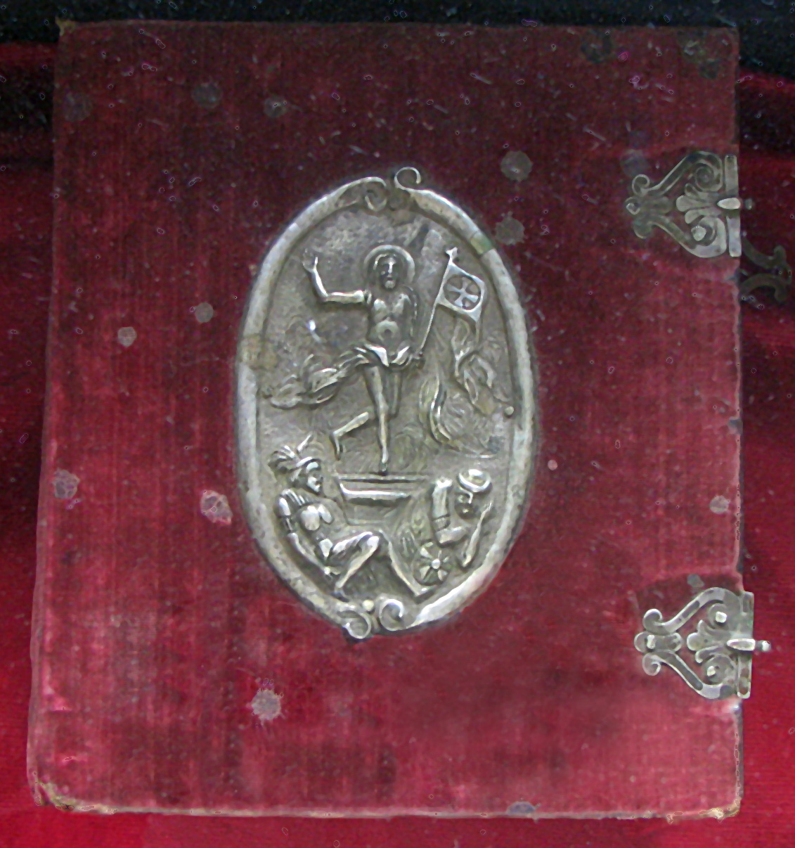 Gospel, Rača monastery